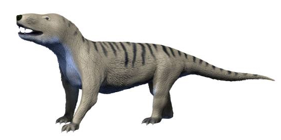 Life reconstruction of Cynognathus crateronotus